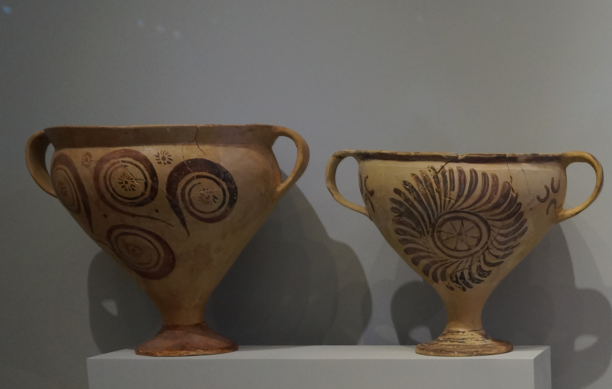 Archaeological Museum of Heraklion: Findings from temple tomb: Ephyraean goblets (end of LM II - beginning of LM III A1; about 1400 BC)